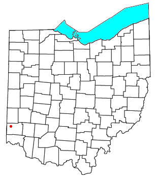 Locator map of the unincorporated community of Darrtown in Butler County, Ohio, United States.